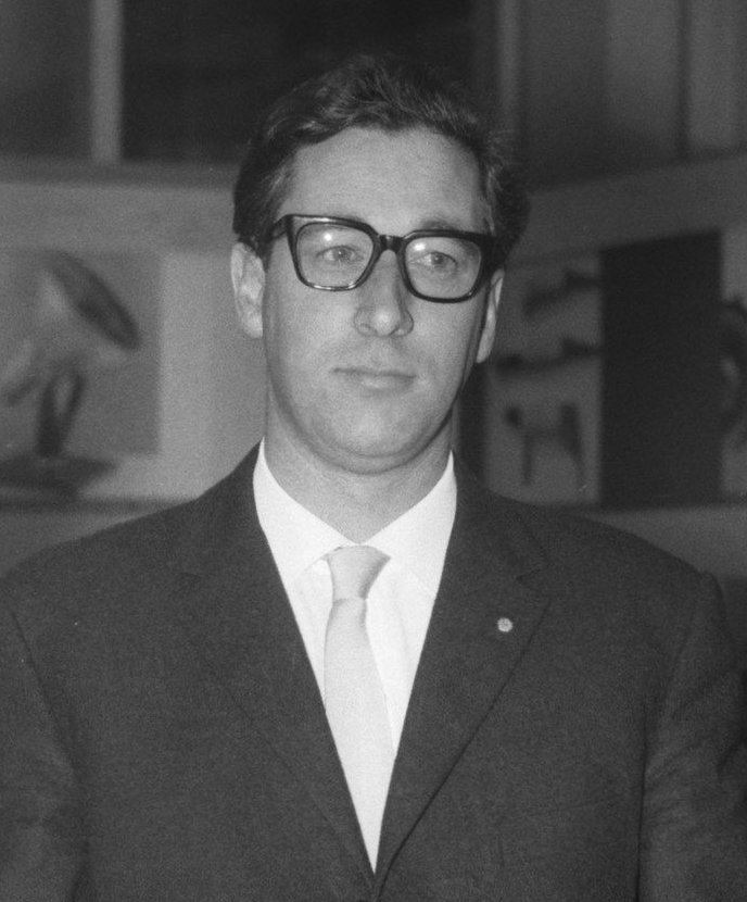 BKI Prize (design industry prize in the Netherlands), 1961